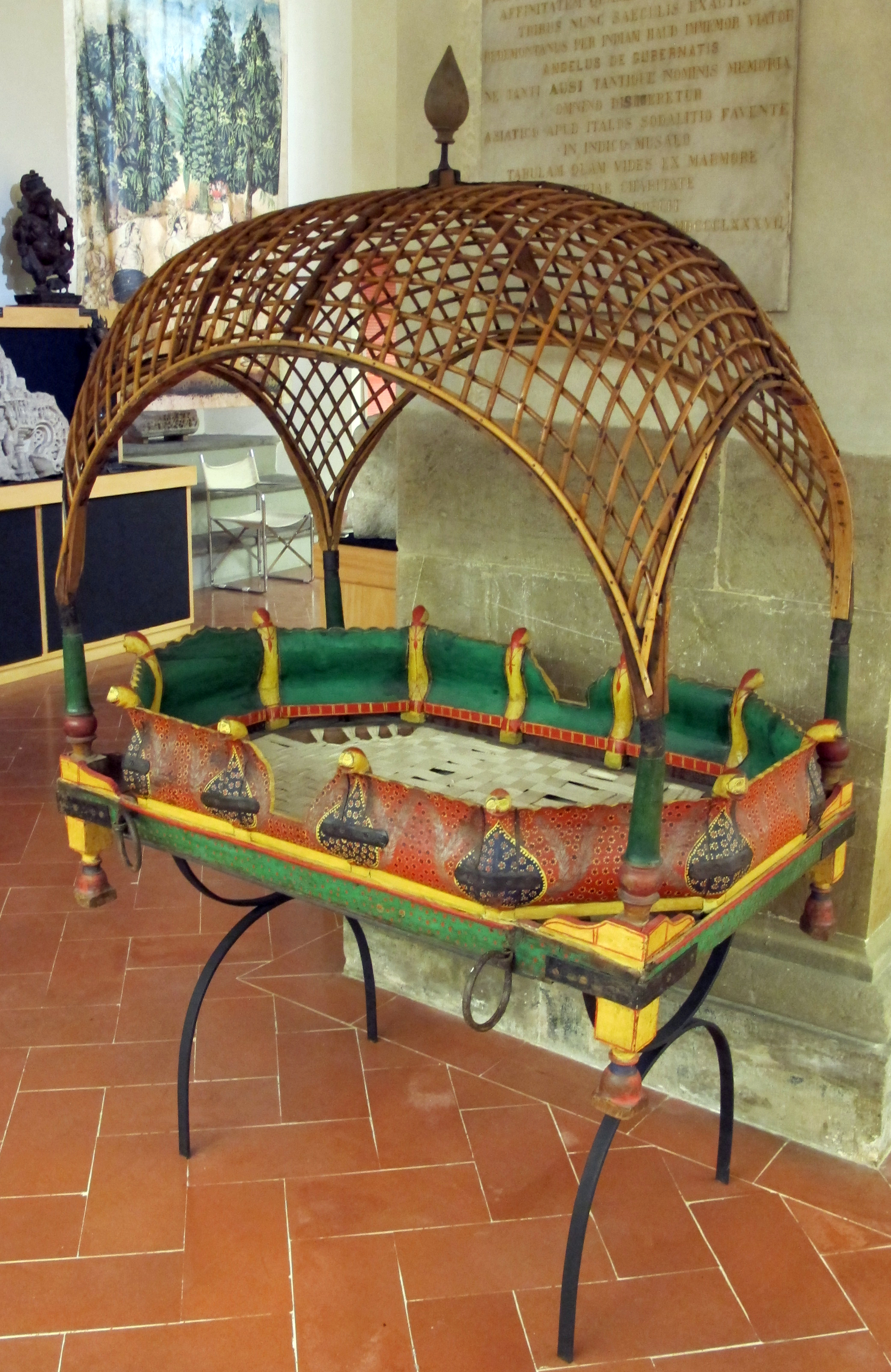 Museo di storia naturale (Florence) - Anthropology and Ethnography section - India